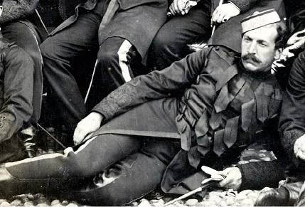 Captain Alfred Hutton (1839-1910) in stable dress, presumably of 1st King's Dragoon Guards, Dublin (?) 1871 (?)